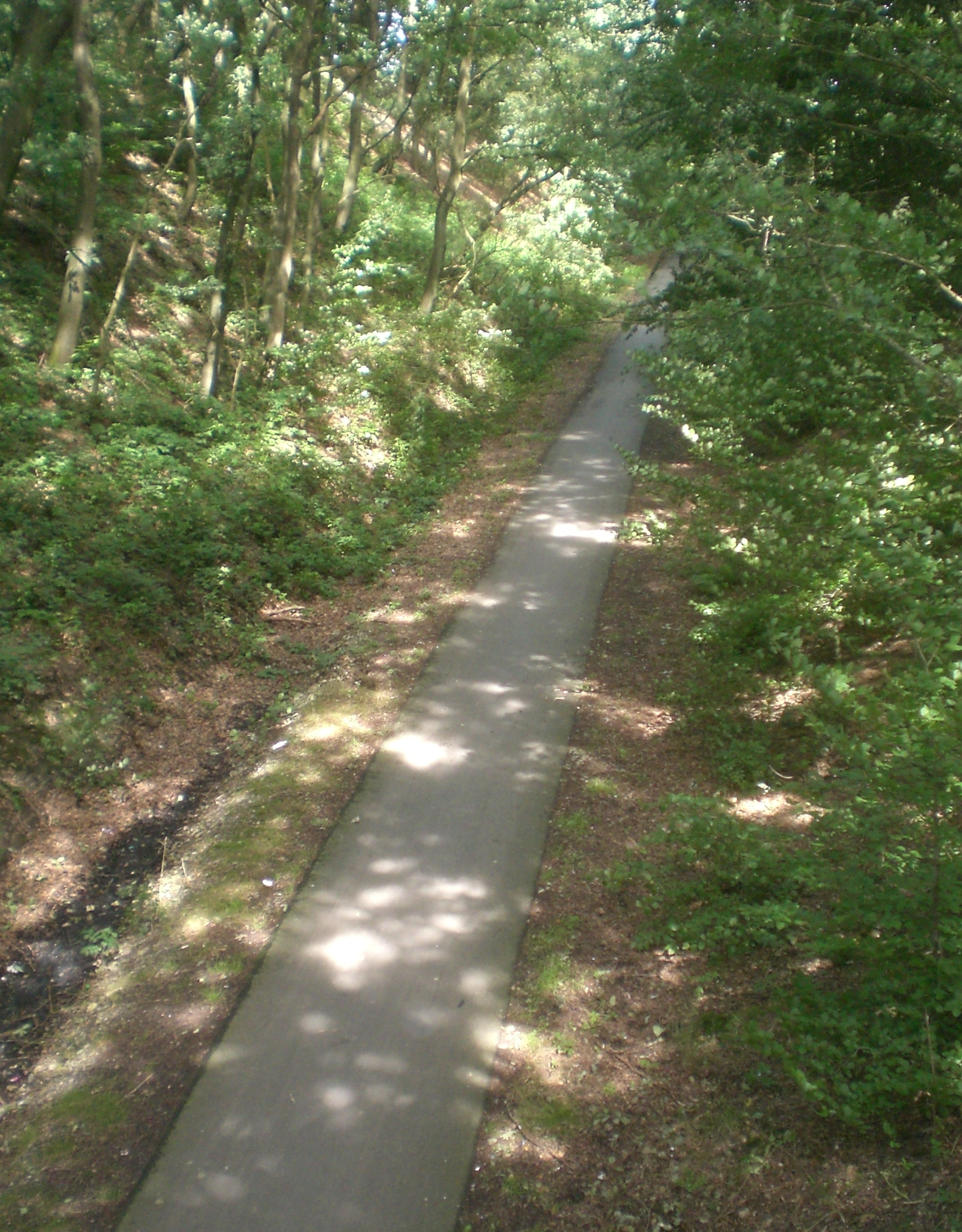 Bicicle path, free of any car noise, on a formar railway in Damme, Lower Saxony, Germany